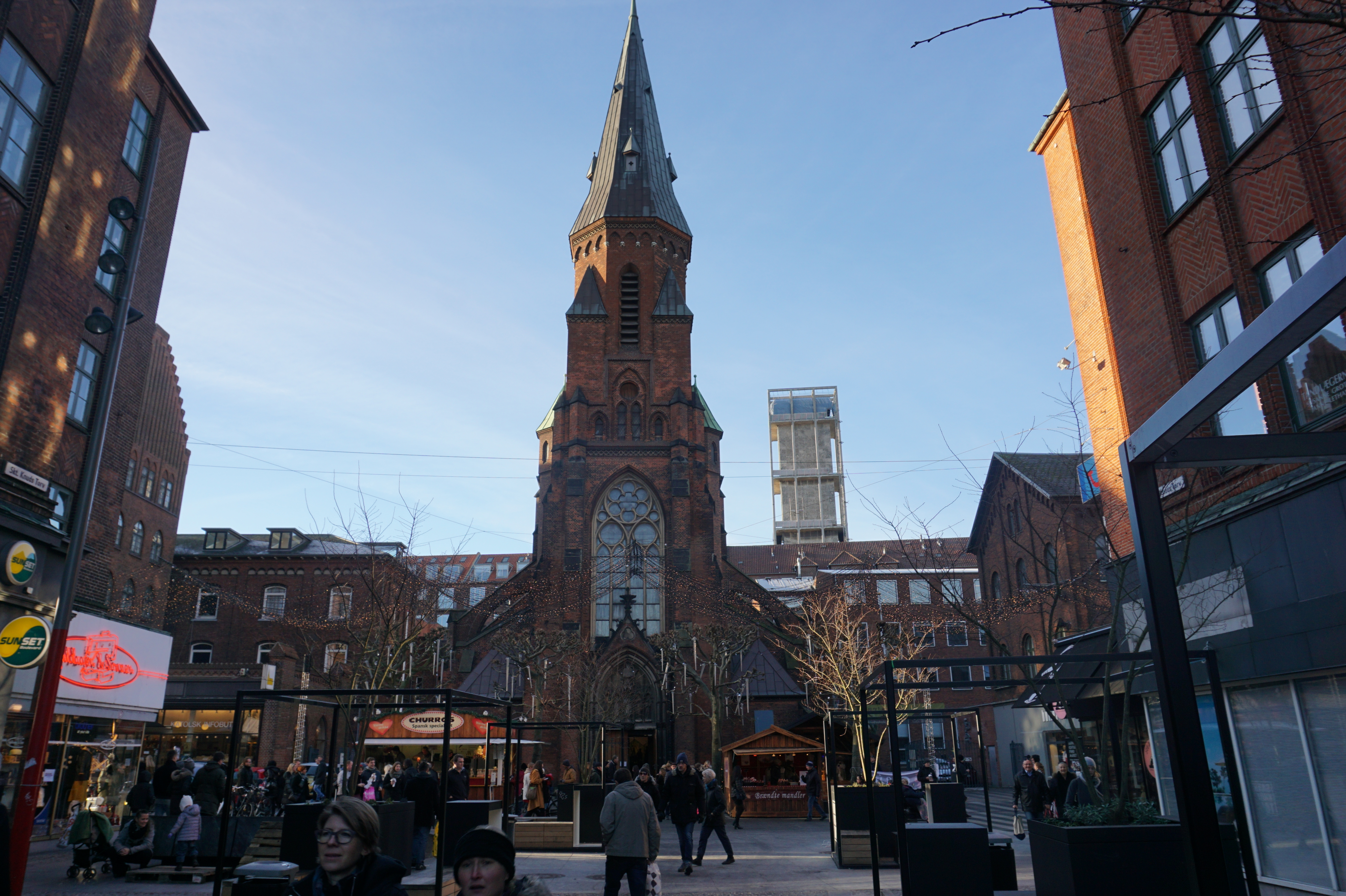 Katolsk Vor Frue Kirke